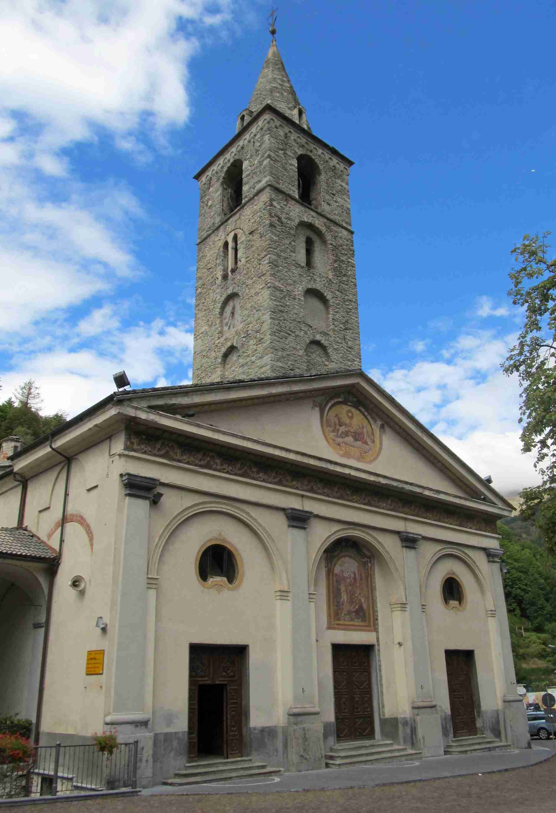 Ormea (CN, Italy): San Martino church